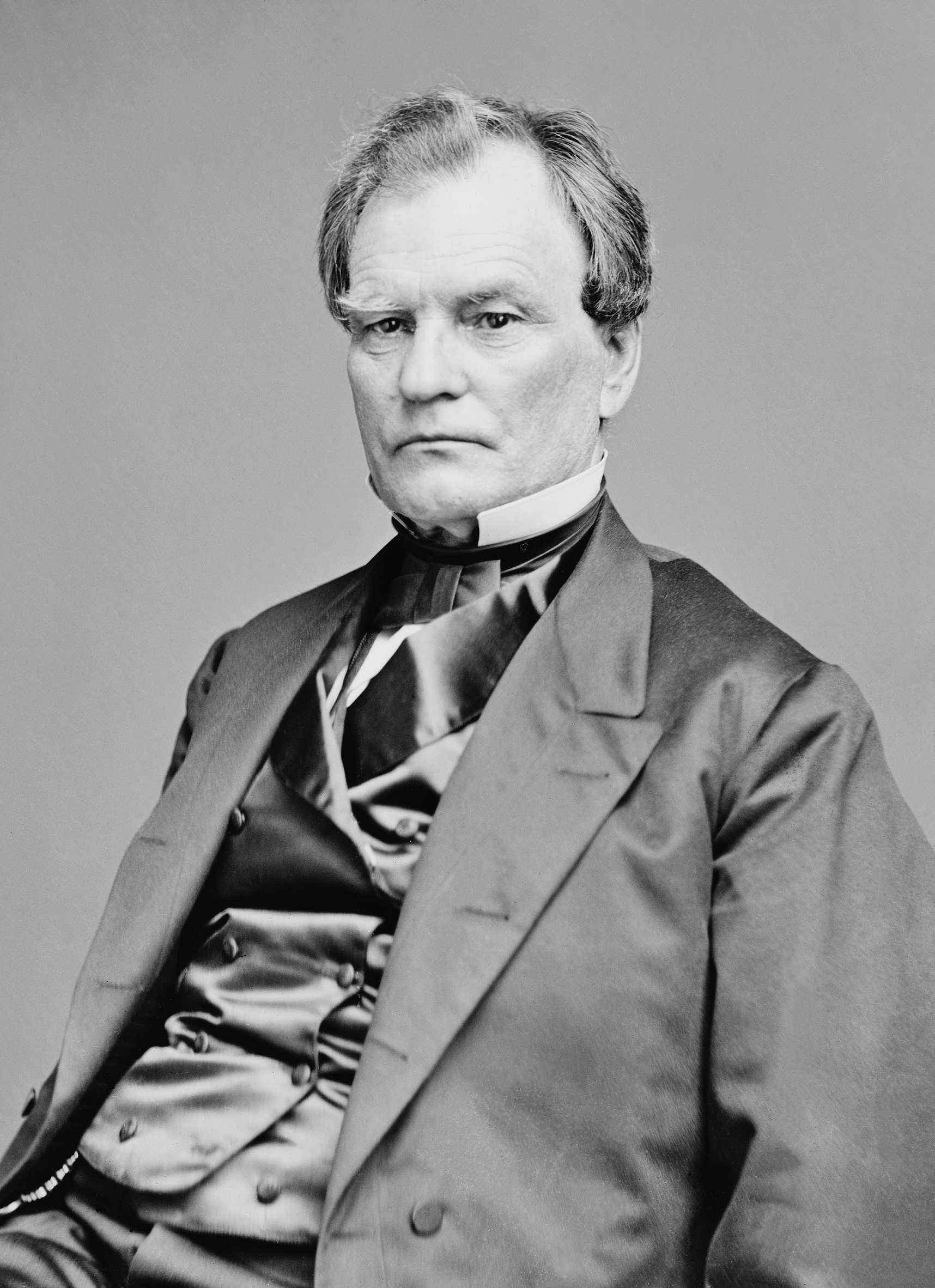 Benjamin Wade. Library of Congress description: "Hon. Ben. F. Wade of Ohio"